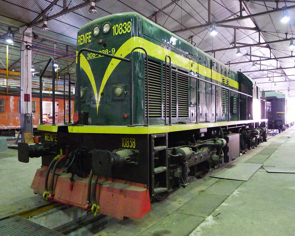 Diesel locomotive Renfe 10838